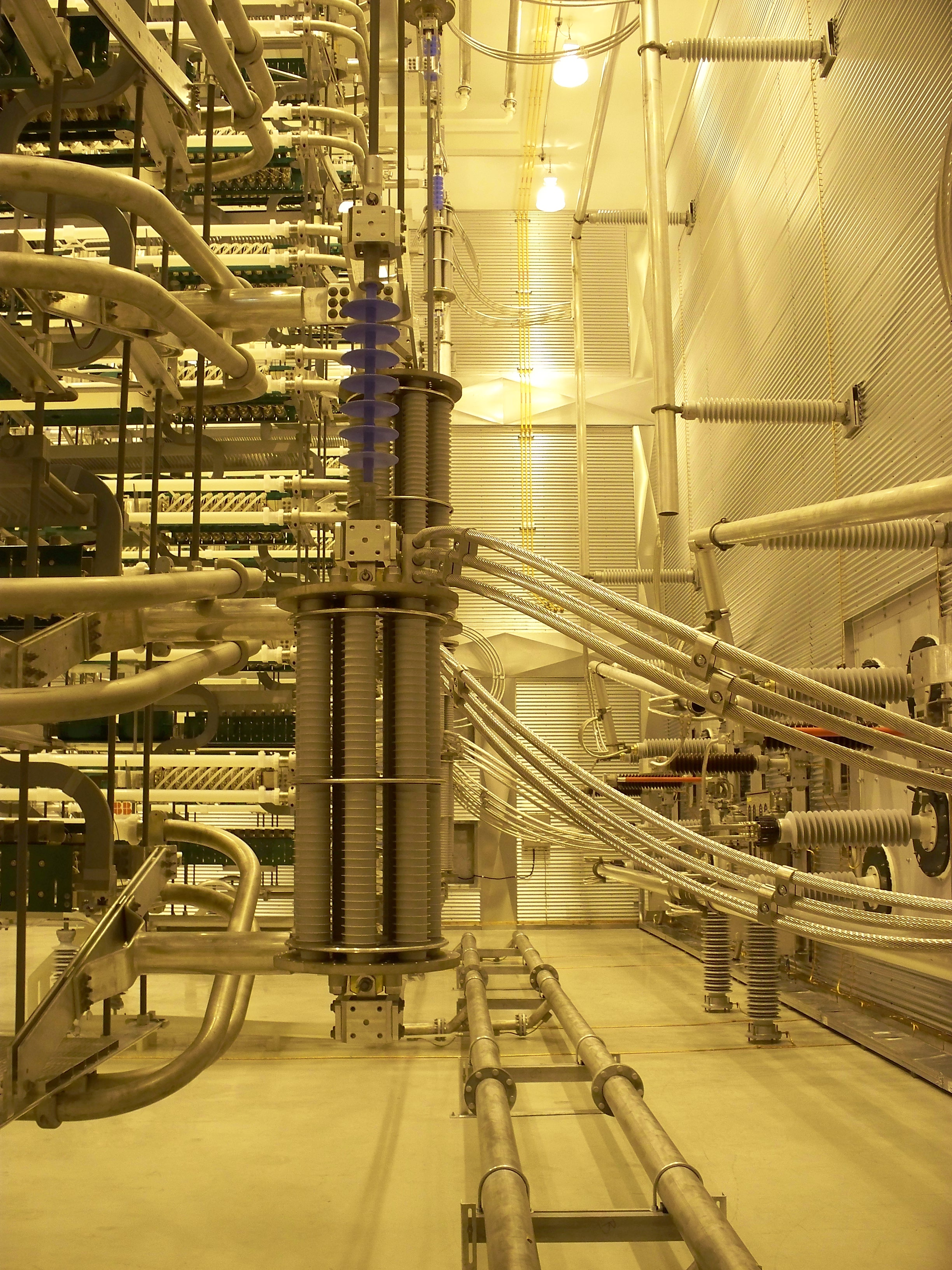 Rectifier between the Hydro One and Hydro-Québec systems at the Outaouais substation, in L'Ange Gardien, Quebec. The Quebec side of this HVDC back-to-back interconnection is on the right.